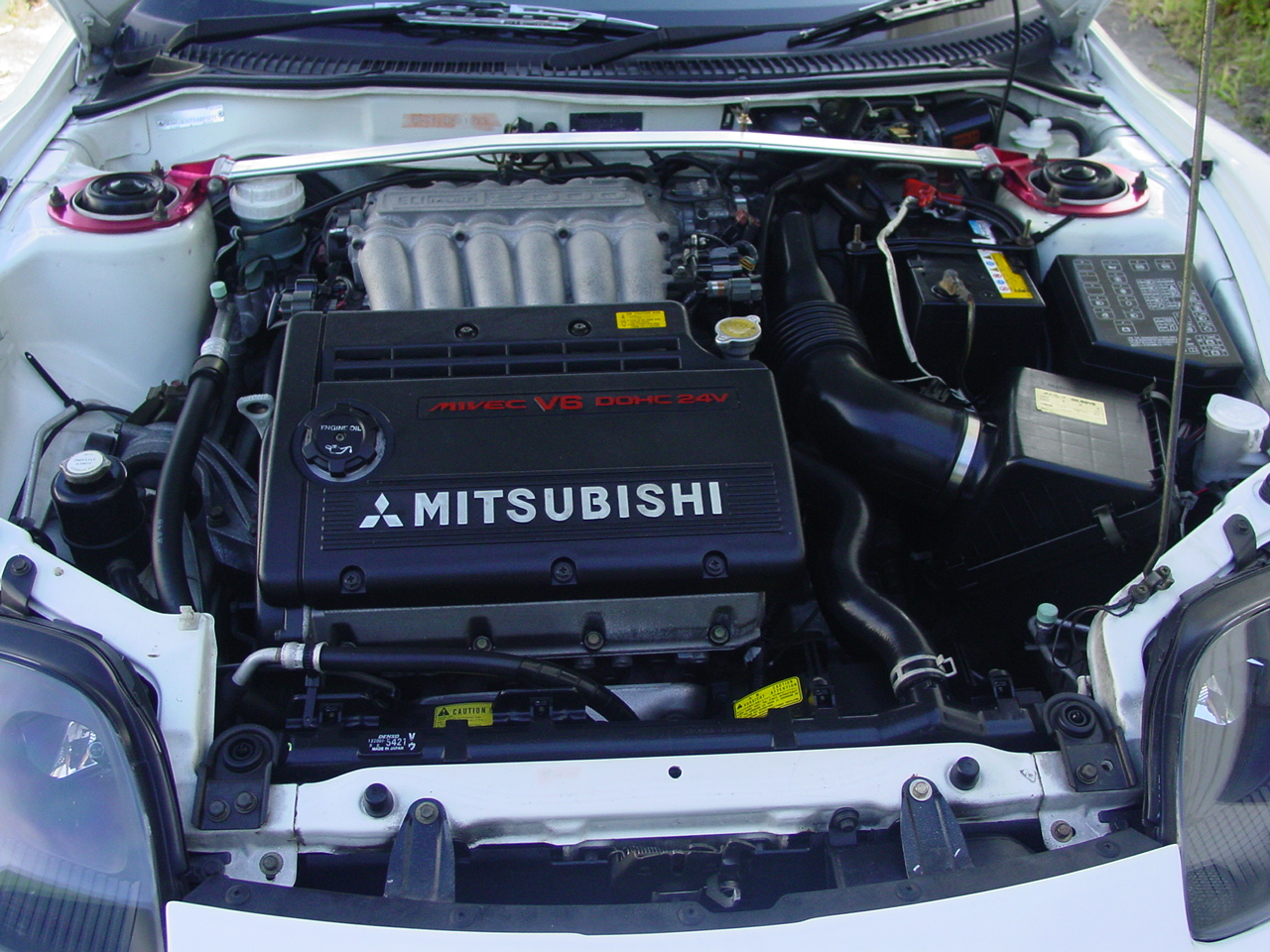 Mitsubishi 6A12 V6 MIVEC engine as fitted to a 1997 Mitsubishi FTO GP Version R.